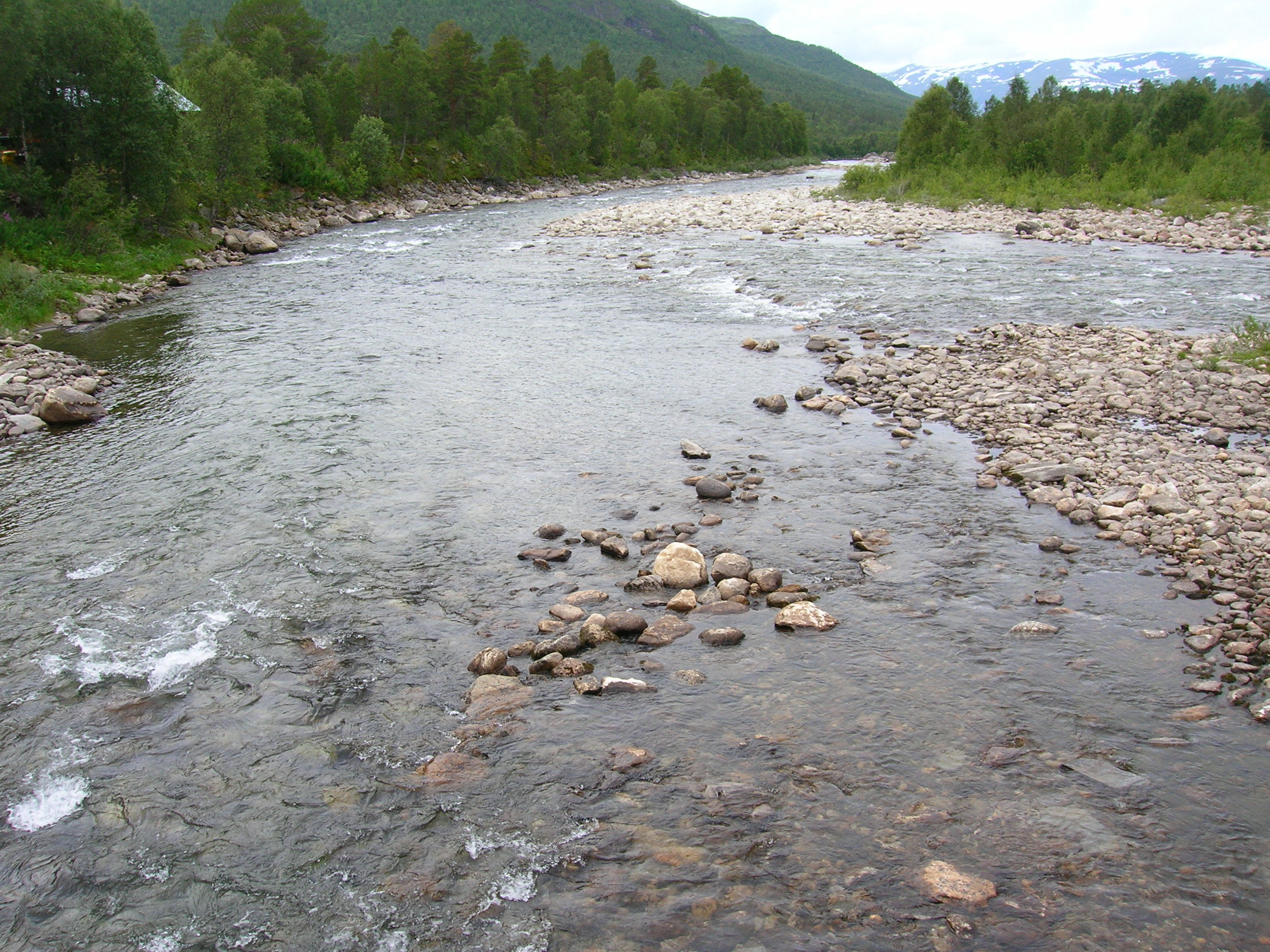 The River Virvasselva just before it ends up as a tributary to Ranelva at Elvmøthei in Rana municipality, county of Nordland, Norway, Photo 5 August, 2007 with a Nikon Coolpix 5600 5,1 Megapixel camera.